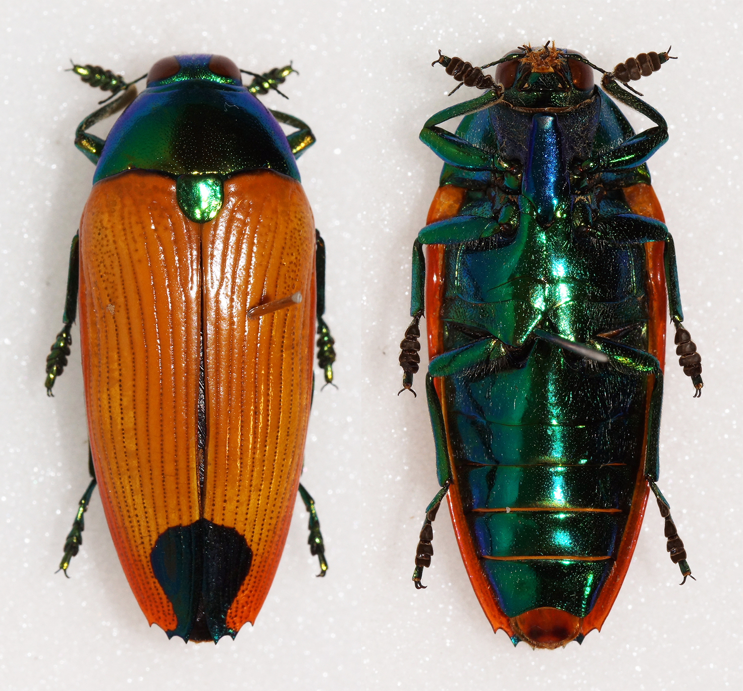 Parry,1848 Sex: Male Data: 15-01-13 - Polly Creek - Garradunga - North Queensland - Australia Size: 29mm